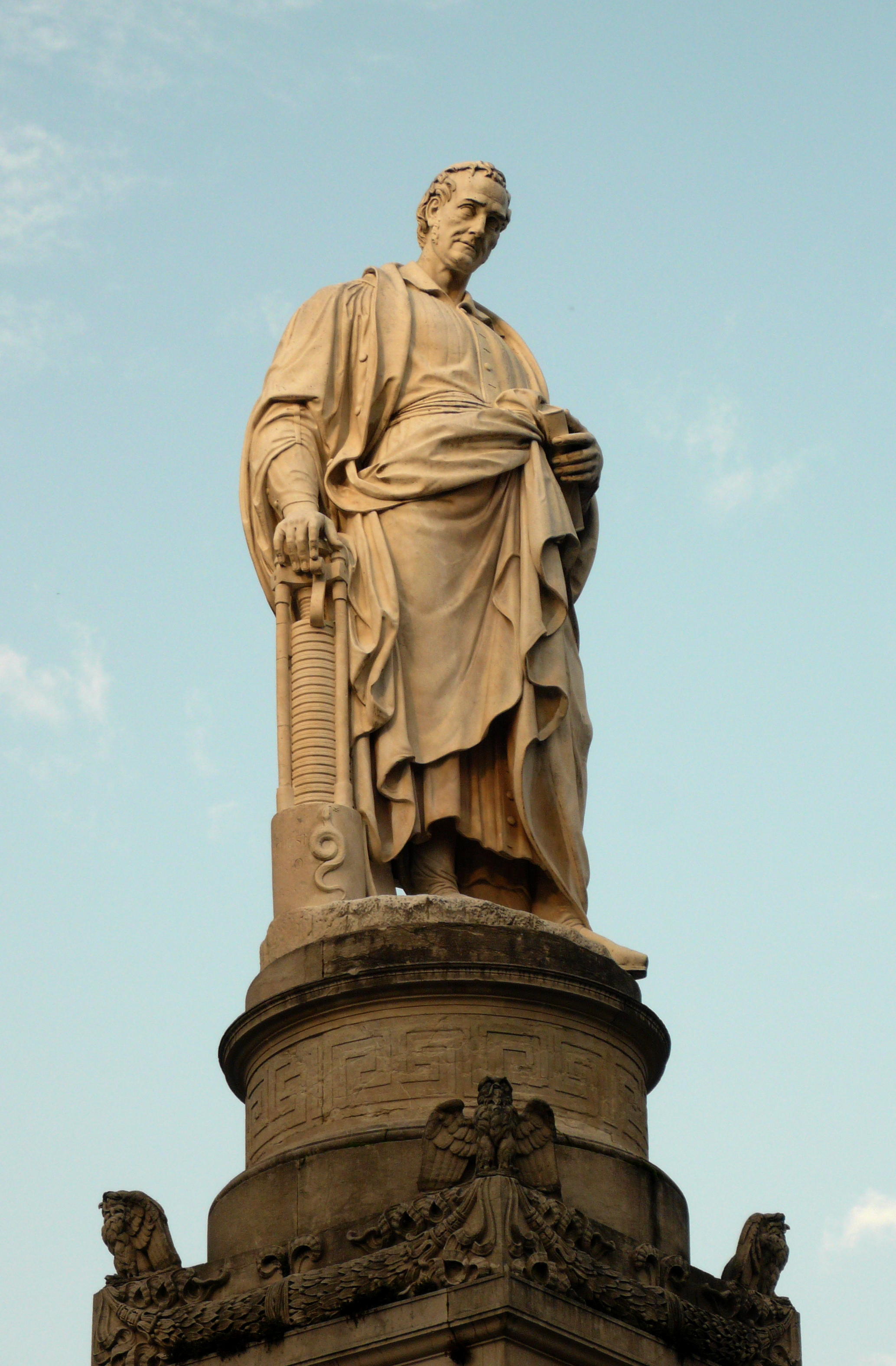 Monument of Alessandro Volta at Como